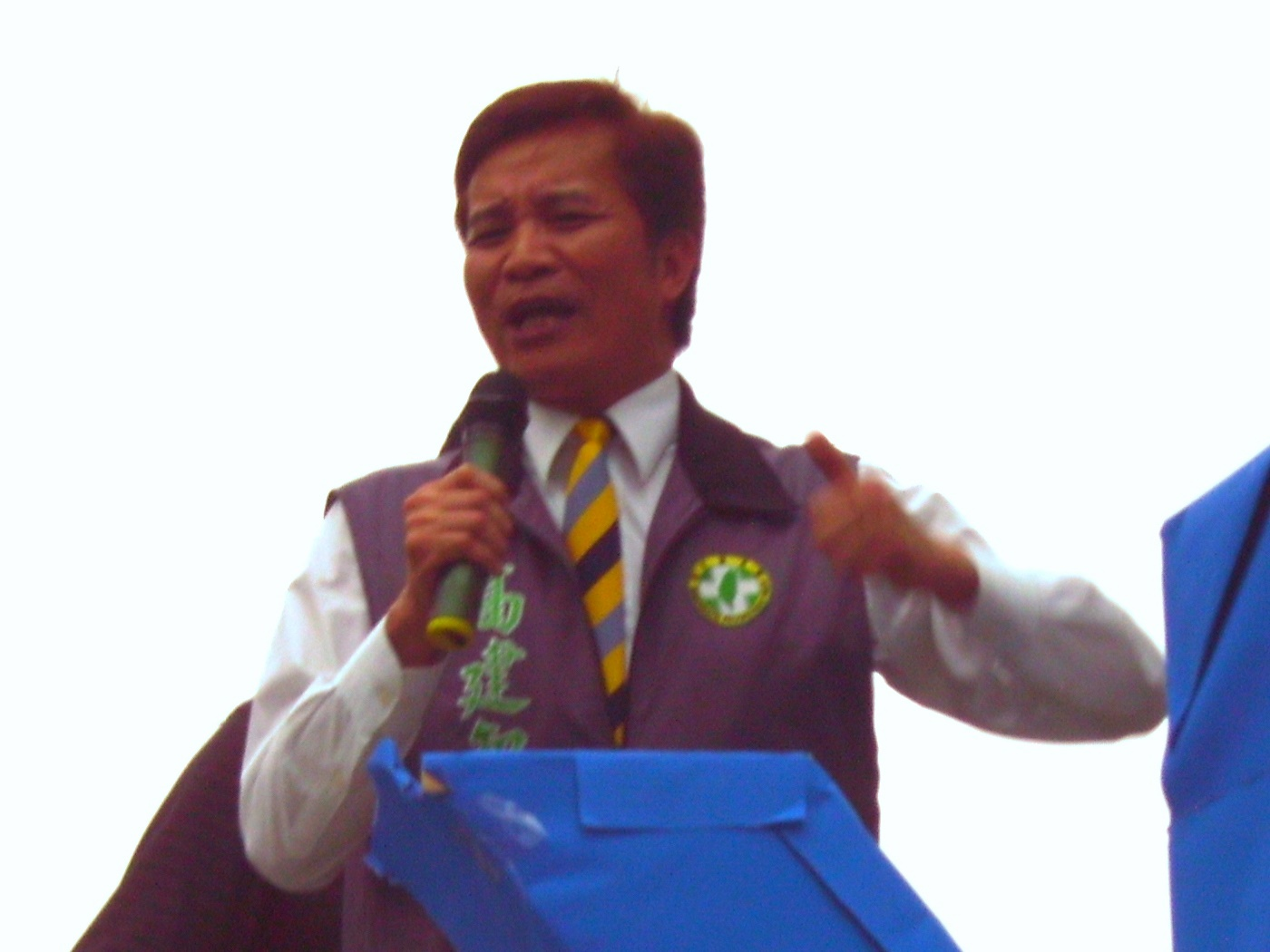 Current DPP Legislator Chien-chih Kao.